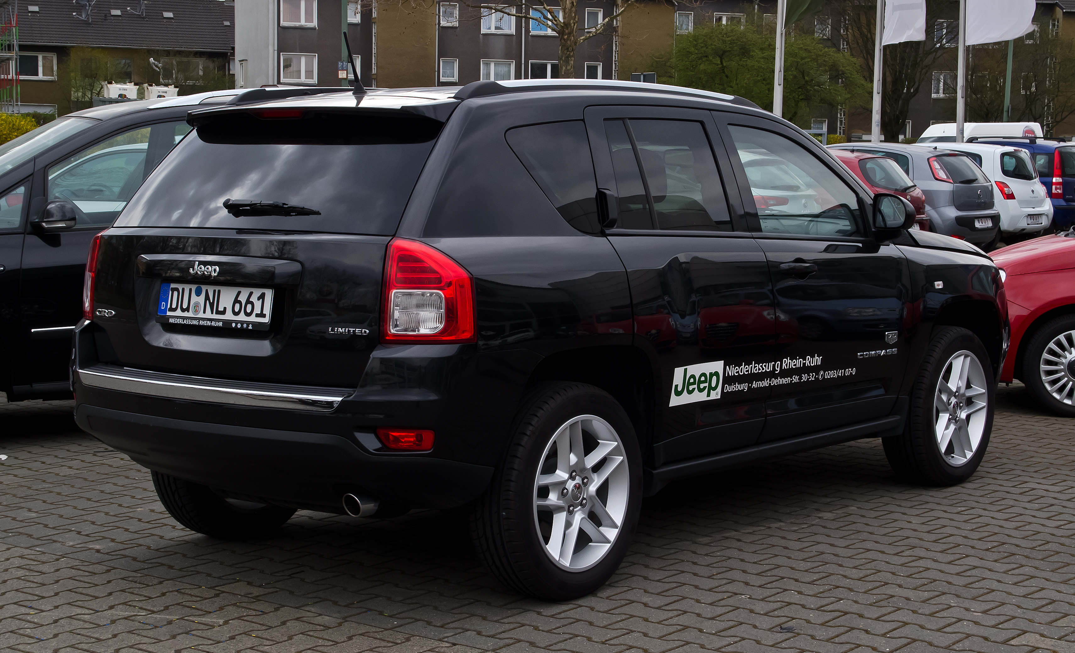 Jeep Compass 2.2 CRD Limited 70th Anniversary Edition (Facelift)